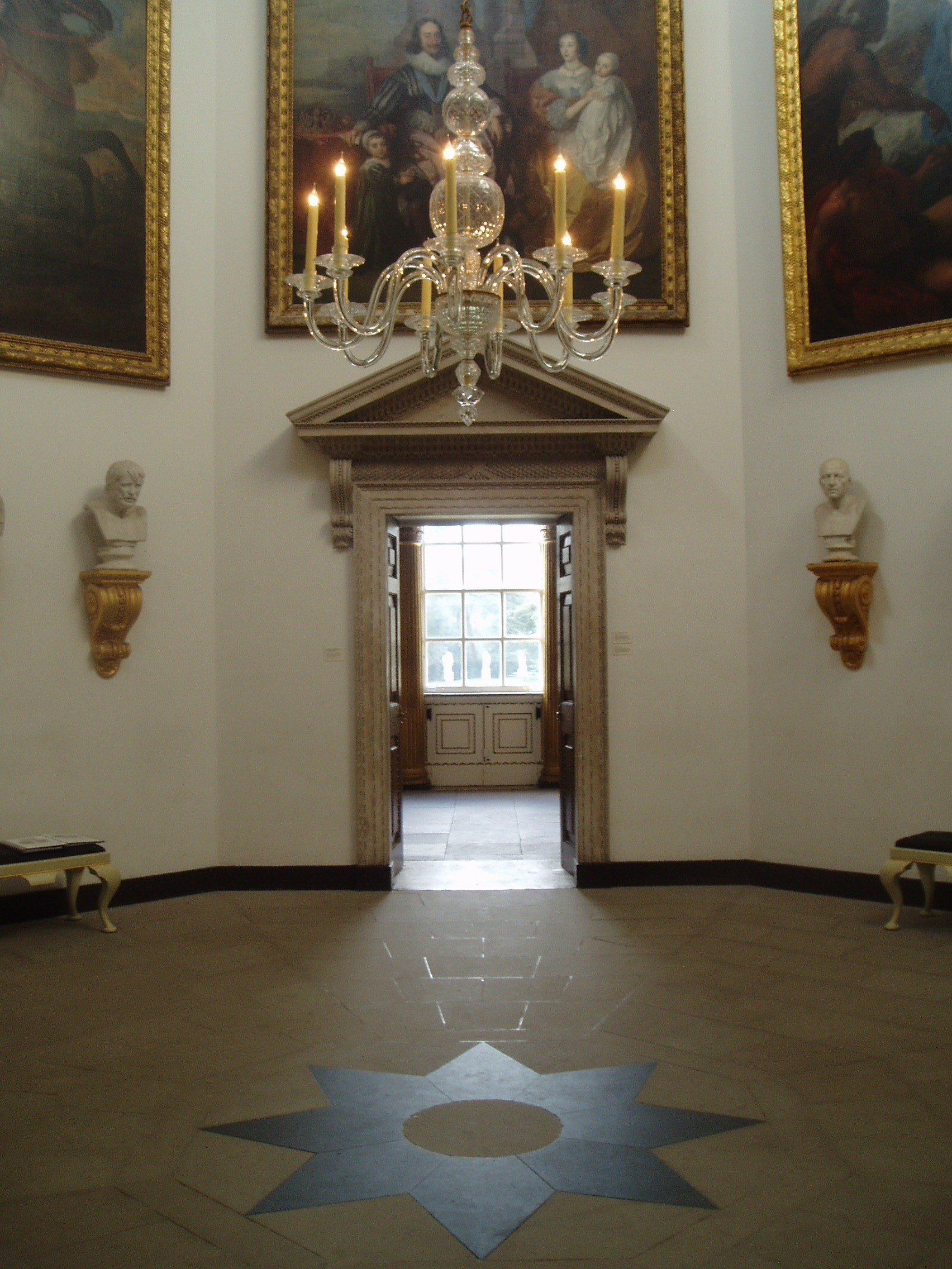 View of the Upper Tribune at Chiswick House looking towards the Gallery